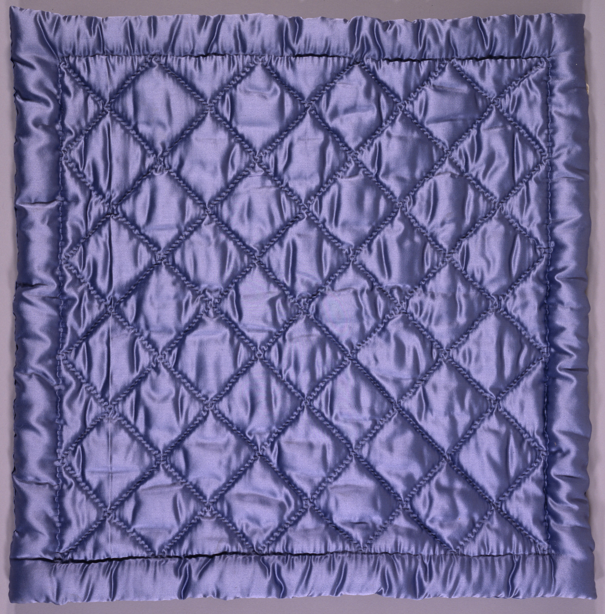 From Smithsonian's description- This padded and quilted blue satin square, produced by William Skinner and Sons, was probably a sales model used at their New York City store. The sample is padded and hand quilted in a 2¾-inch grid pattern. Extra filling in the unquilted borders makes them higher than the quilted surface. In the early 20th-century, William Skinner and Sons was a prominent silk production and textile manufacturer. From 1874 the manufacturing business was located in Holyoke, Massachusetts. After the death of the founder, William Skinner in 1902, his sons took over the business. The family sold the business to Indian Head Mills in 1961. This square is an example of “Skinner’s Satins,” as they were popularly known.